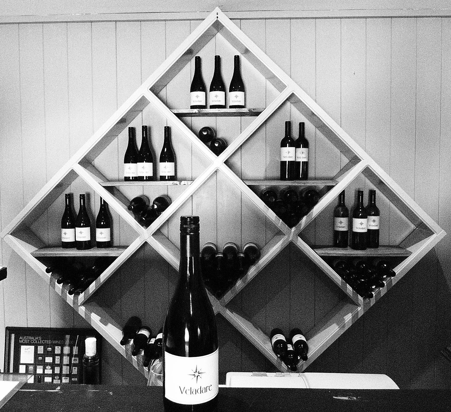 A cellar door in the Hunter Valley, Australia